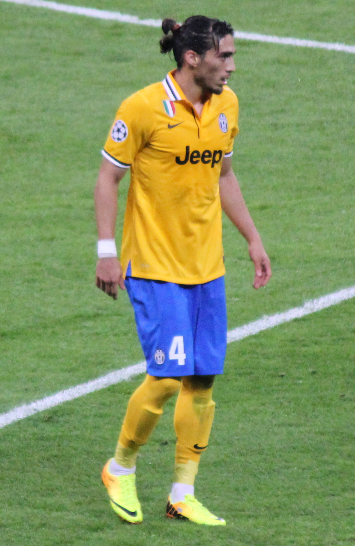 Real Madrid vs Juventus, 24 October 2013 Champions League